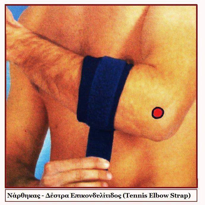 Tennis elbow strap